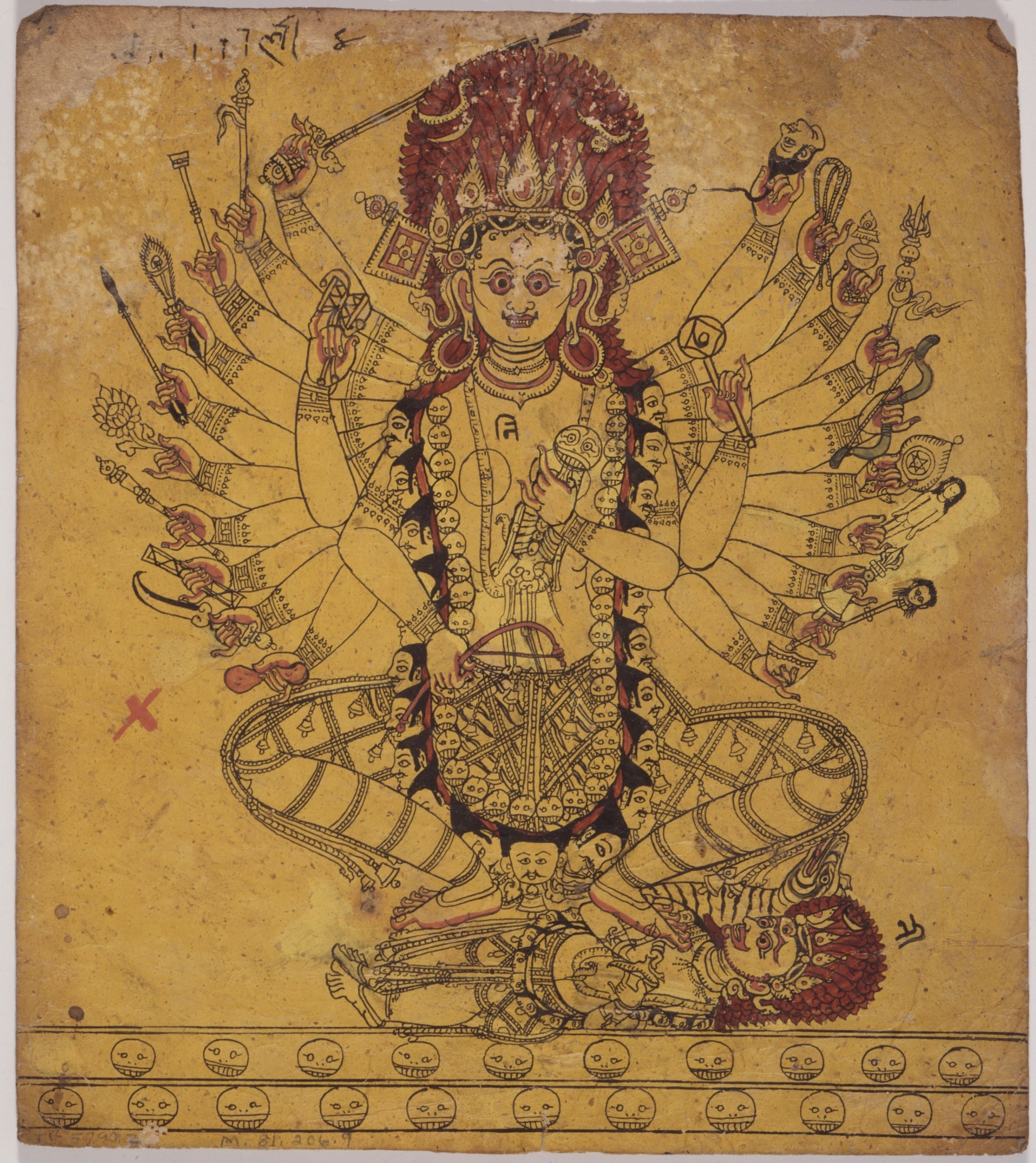 Nepal, 17th century Drawings Ink and opaque watercolor on paper Gift of Dr. and Mrs. Robert S. Coles (M.81.206.9) South and Southeast Asian Art